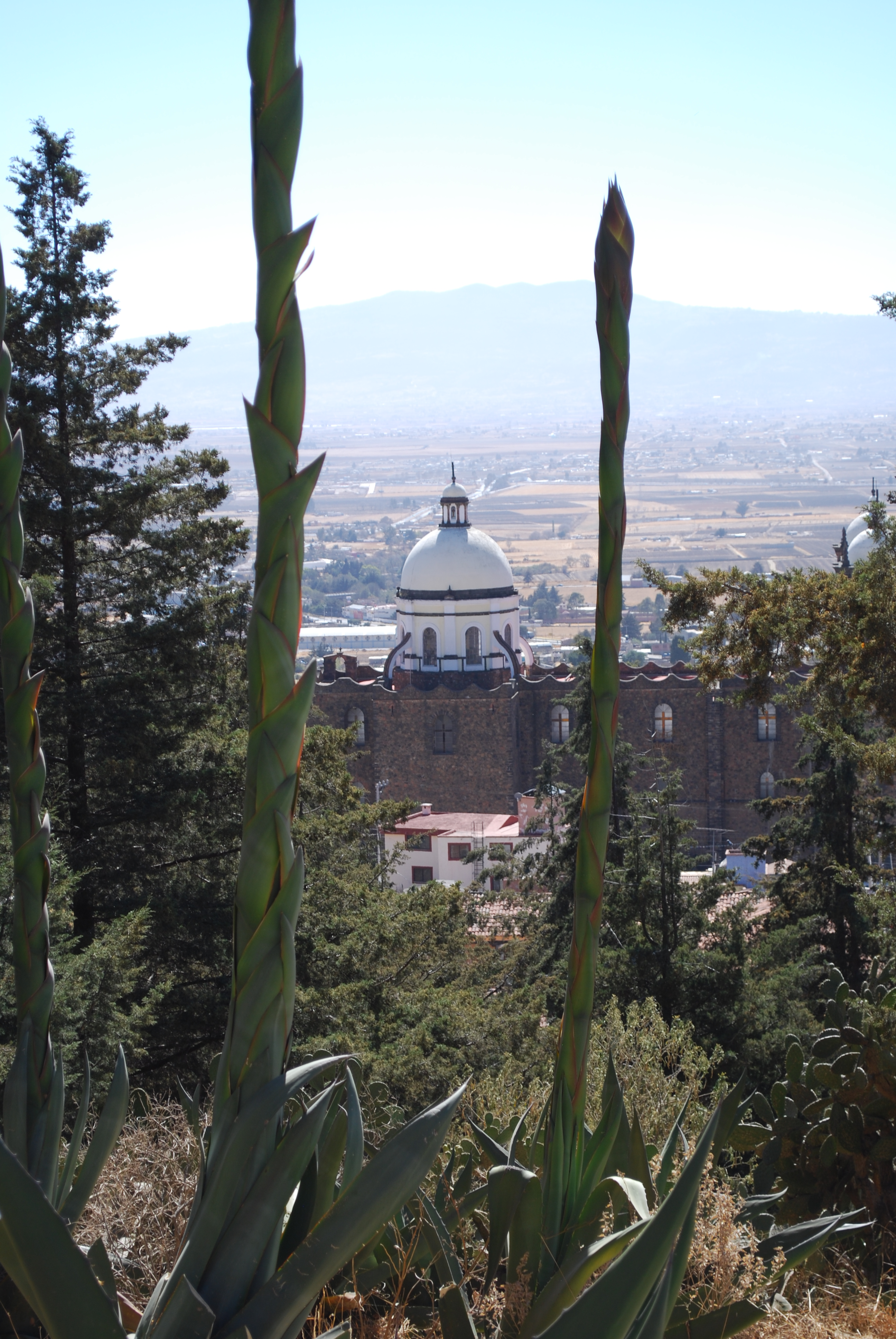 Overlooking Jocotitlan, Mexico State, Mexico thorugh maguey plants